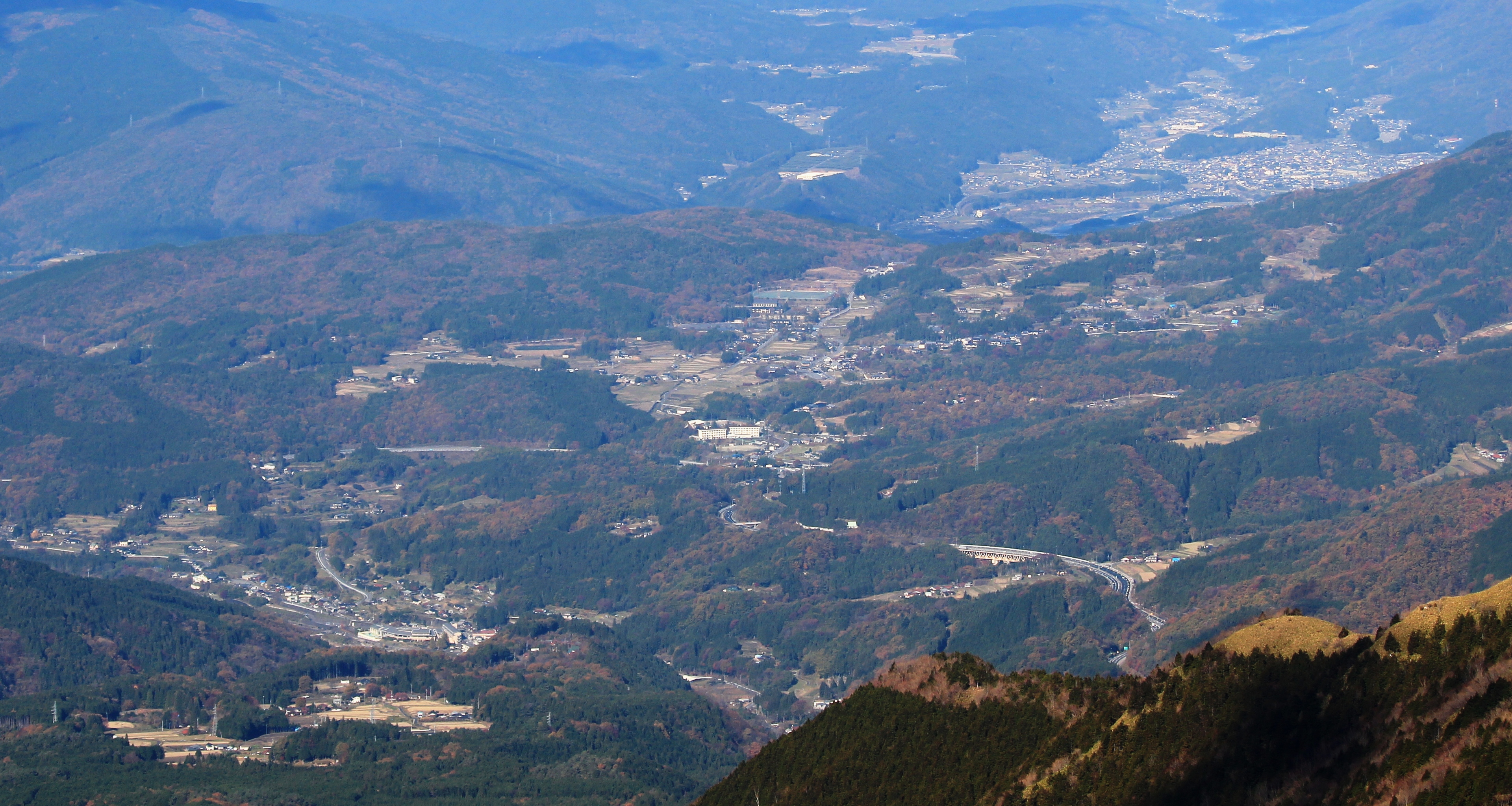 Magome-juku seen from Mount Ena in Nakatsugawa, Gifu prefecture, Japan.